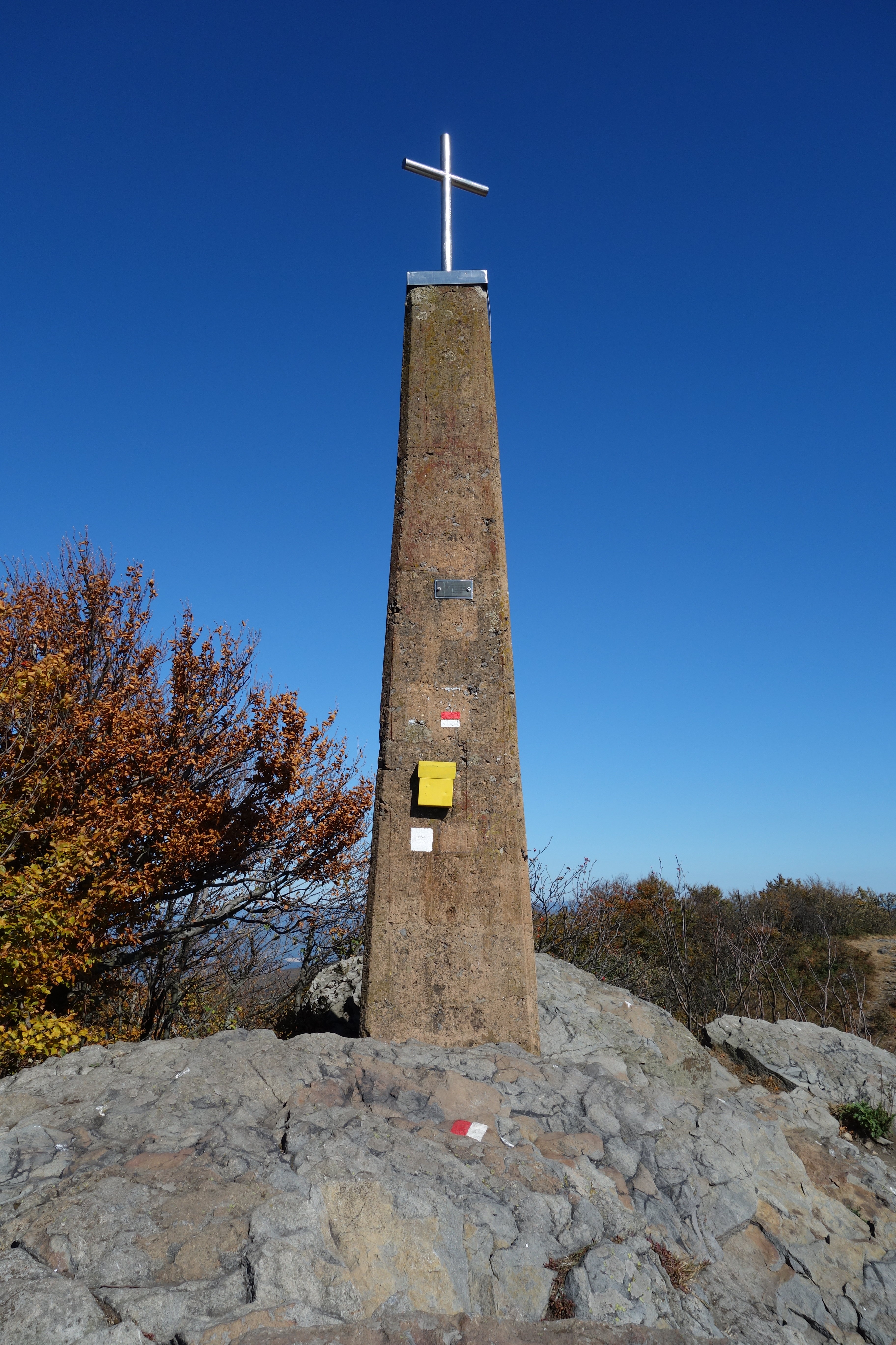 Pylon on top of Vihorlat This is a photography of Natura 2000 protected area with ID SKUEV0025